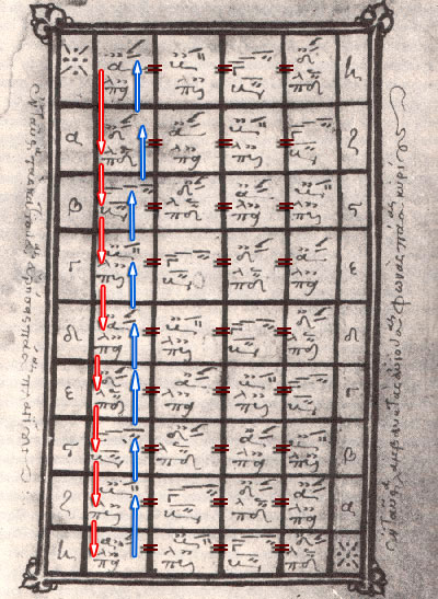 Explanation of Kanonion used for Solfeggio (parallage) in a treatise about Byzantine chant (Papadike)